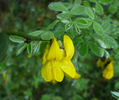 Cytisus villosus (syn. Genista triflora, Cytisus triflorus) near Tibidabo, Barcelona, Collserola, Catalonia